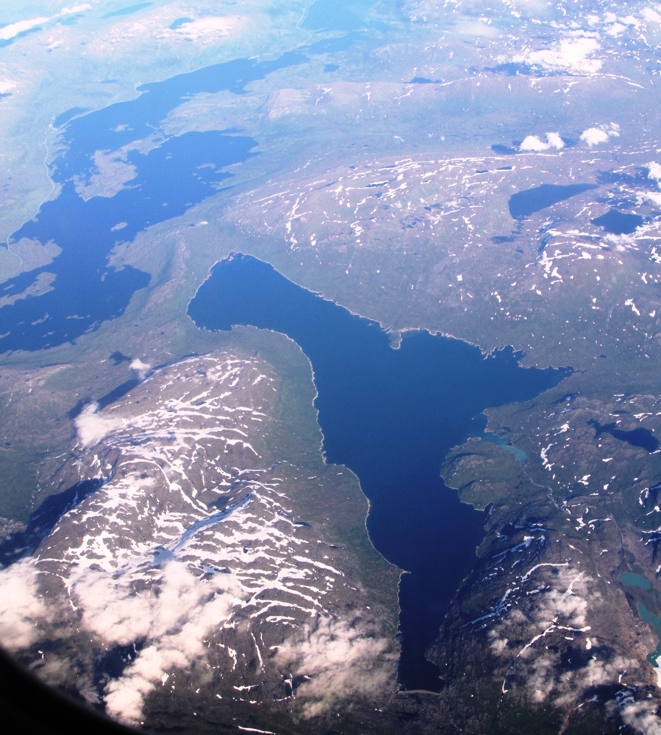 Aerial view from the west towards east, over eastern Hemnes municipality, direction towards Sweden (Västerbotten Län).